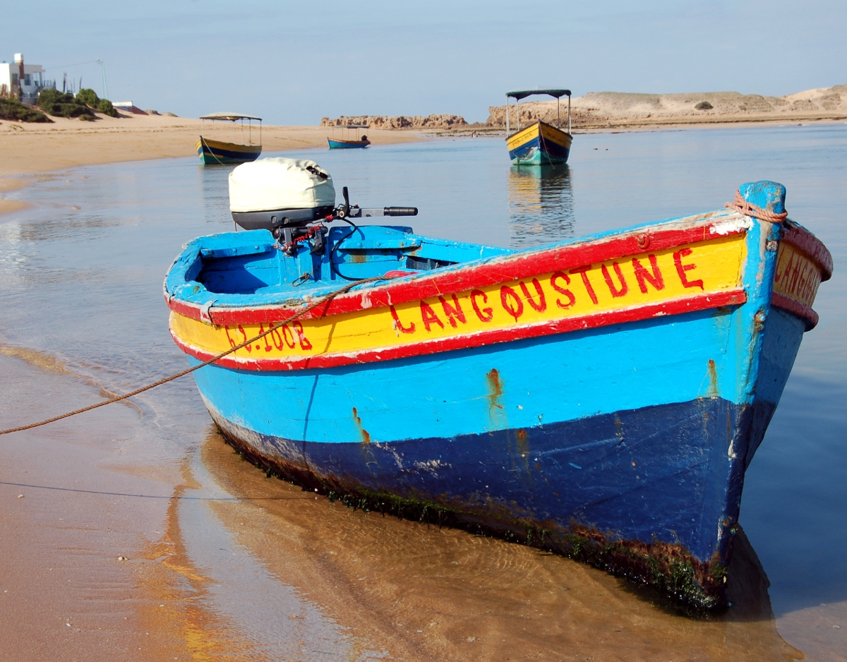 Oualidia beach boat